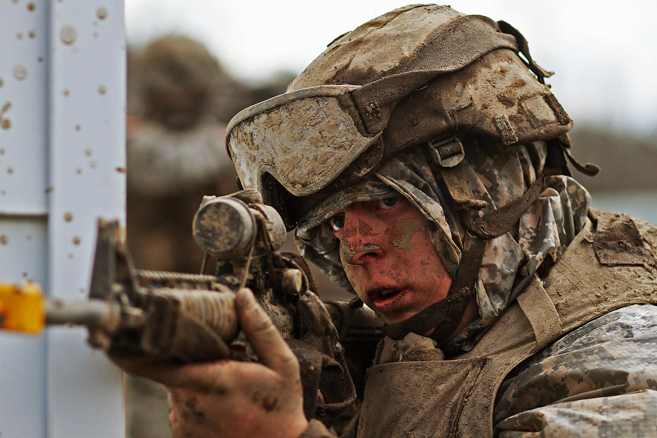 Covered in dried mud from previous training, Pfc. Kaleb Peck, Charlie Company, Special Troops Battalion, 37th Infantry Brigade Combat Team, Ohio National Guard, looks for threats as he provides rear security to his squad during urban operations training in the Camp Ravenna Joint Maneuver Training Center, Ravenna, Ohio, April 17. Urban operations training is just one of more than 200 common training tasks that Peck, along with about 3,600 other soldiers of the 37th brigade must complete before they are scheduled to deploy to Afghanistan in fall 2011 in support of Operation Enduring Freedom. Headquarters, 37th Infantry Brigade Combat Team Photo by Sgt. Sean Mathis Date Taken:04.17.2011 Location:RAVENNA, OH, US Related Photos